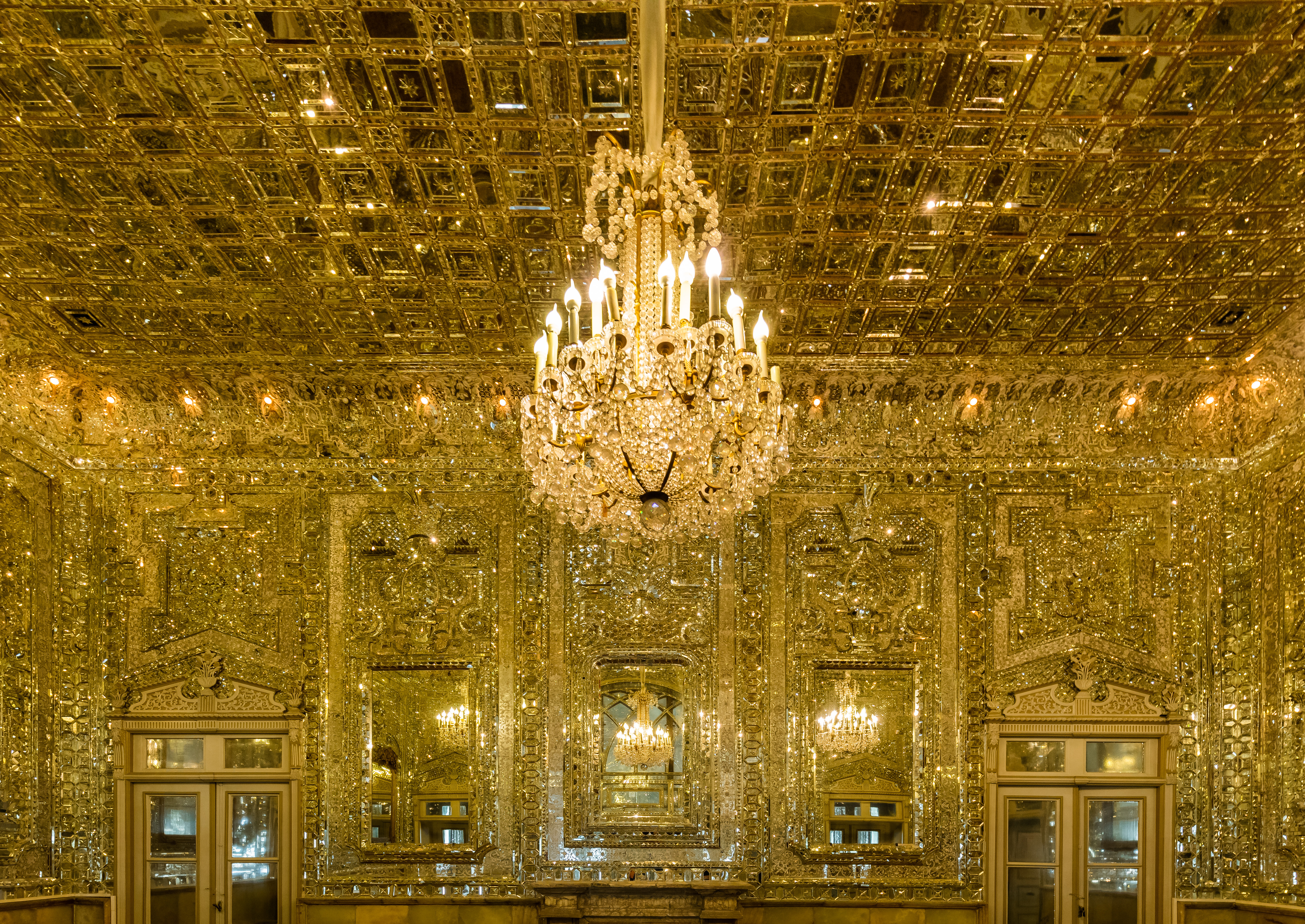 Golestan Palace, Tehran, Iran